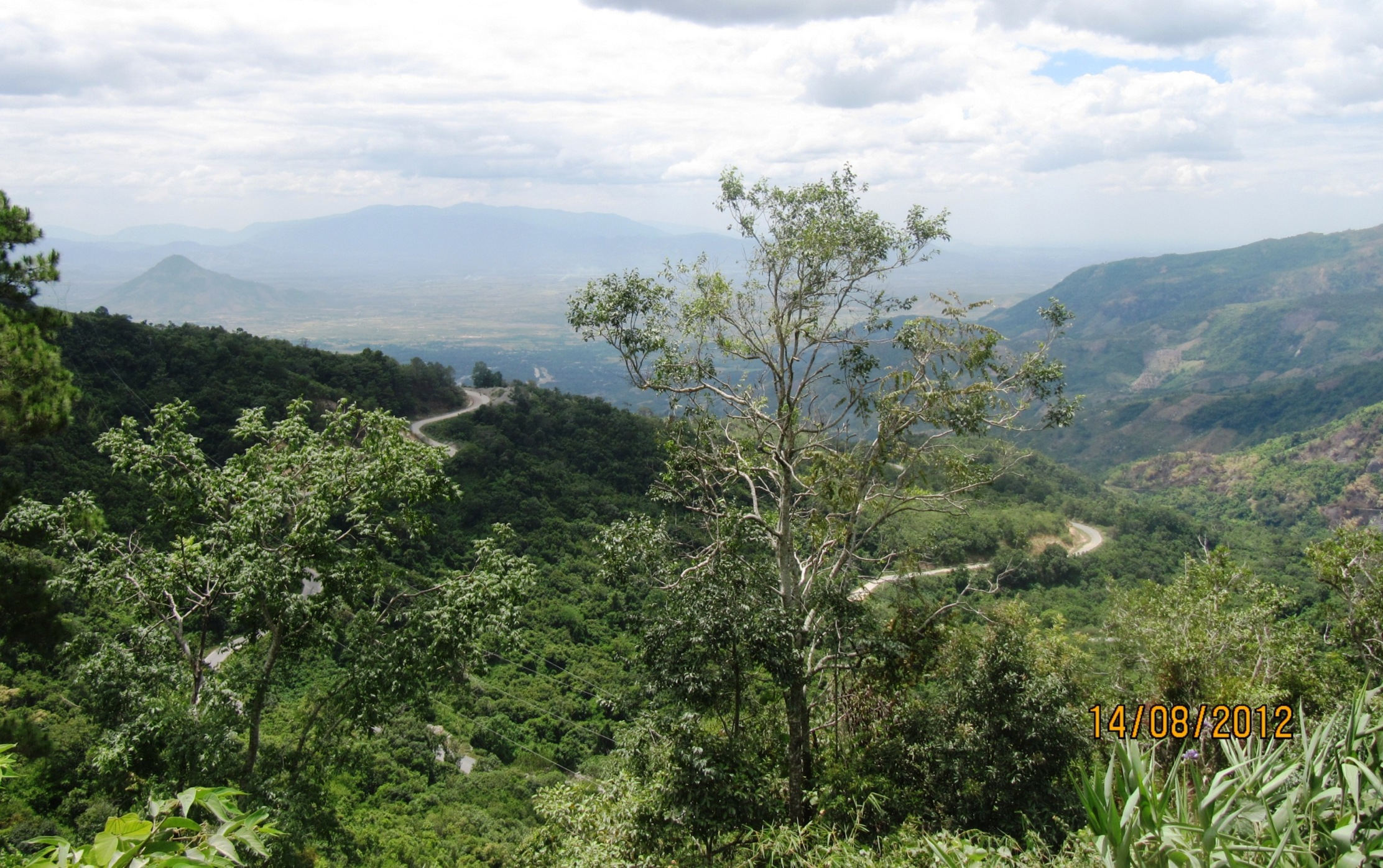 Sông Pha Pass, Ninh Thuận province, Vietnam. View to northeast